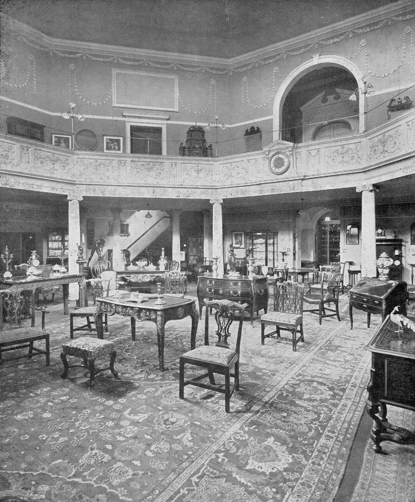 View of the interior of the Old Octagon Church. Opened in 1760. Now containing the 18th century collections of antique furniture, china, etc. Mallett's Bath Showrooms in the Octagon.